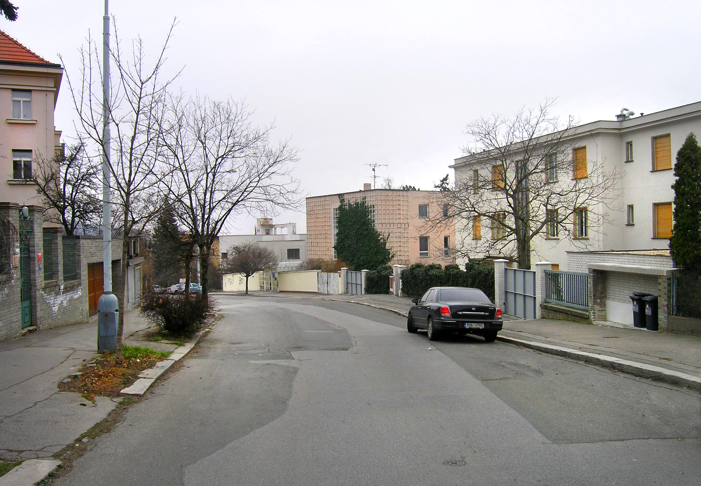 Na Cihlářce street at Smíchov, Prague